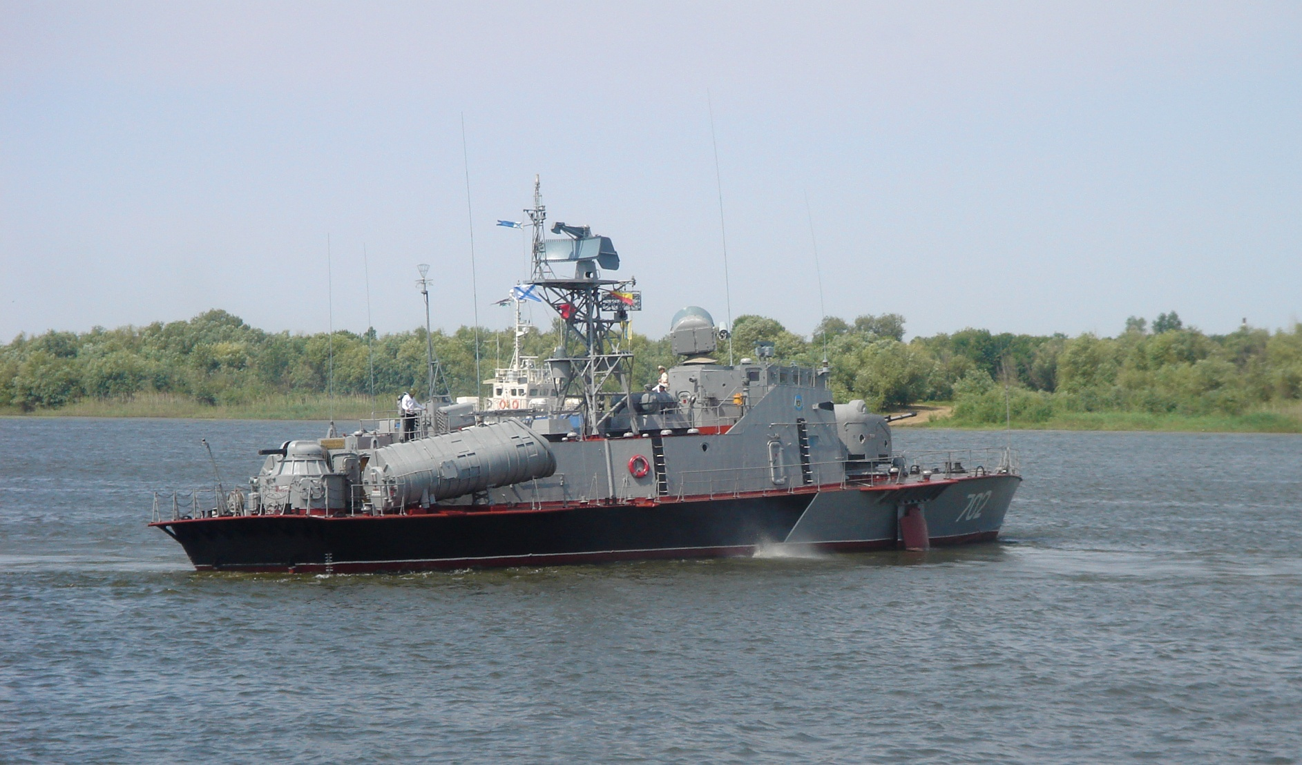 Missile boat Budyonovsk from Caspian Flotilla